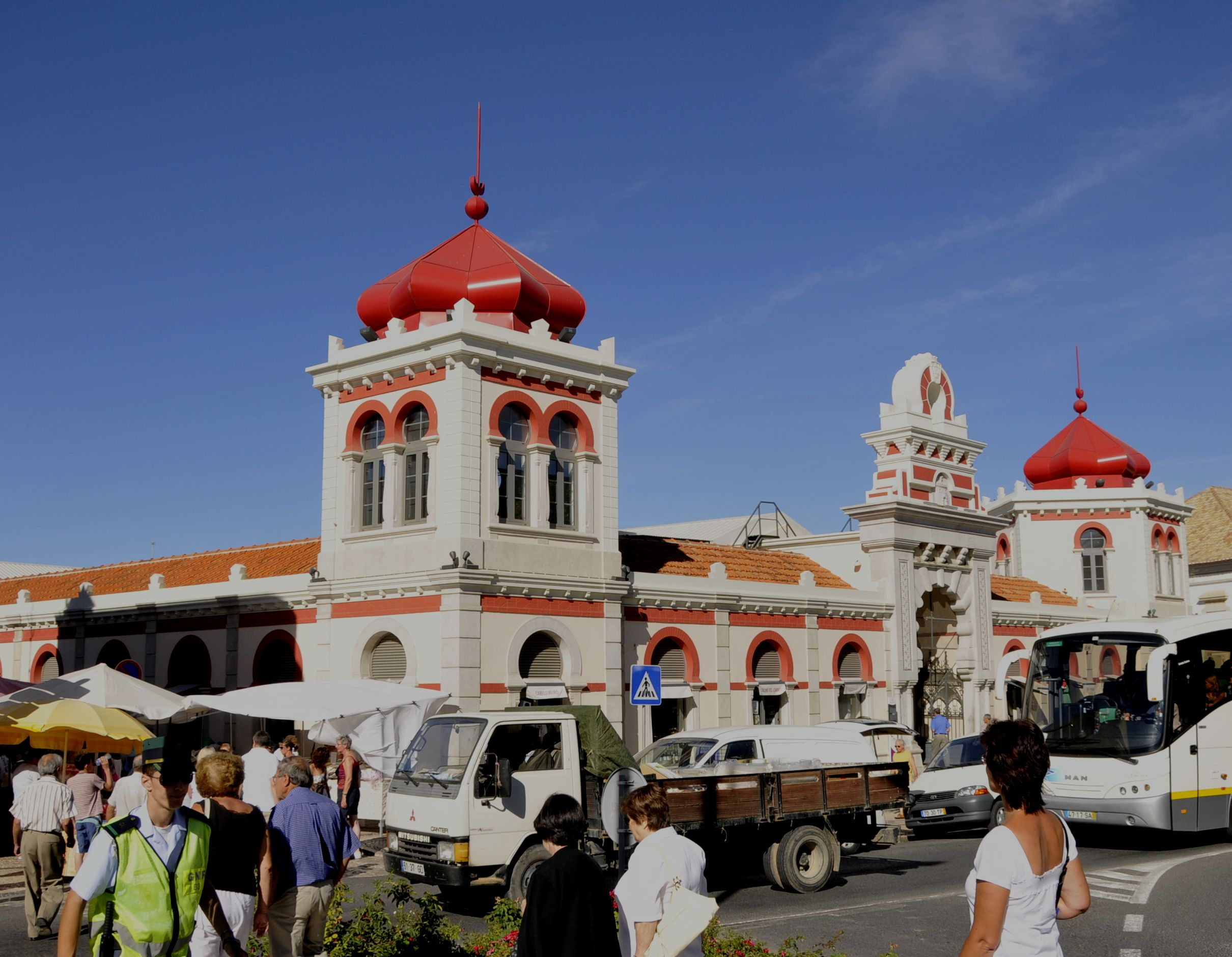 The municipal market in Loulé